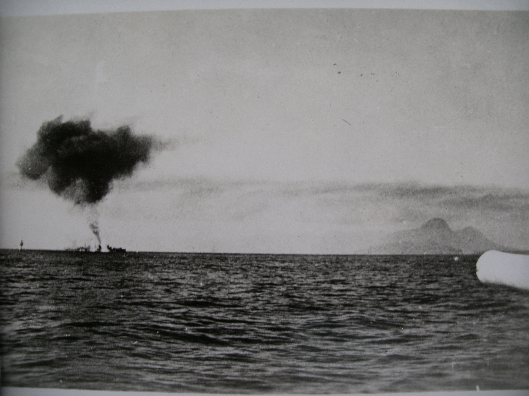 Italian cruiser Bartolomeo Colleoni under attack from HMAS Sydney and destroyer flotilla